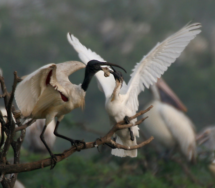 Black-headed Ibis Threskiornis melanocephalus in Uppalapadu, Andhra Pradesh, India.